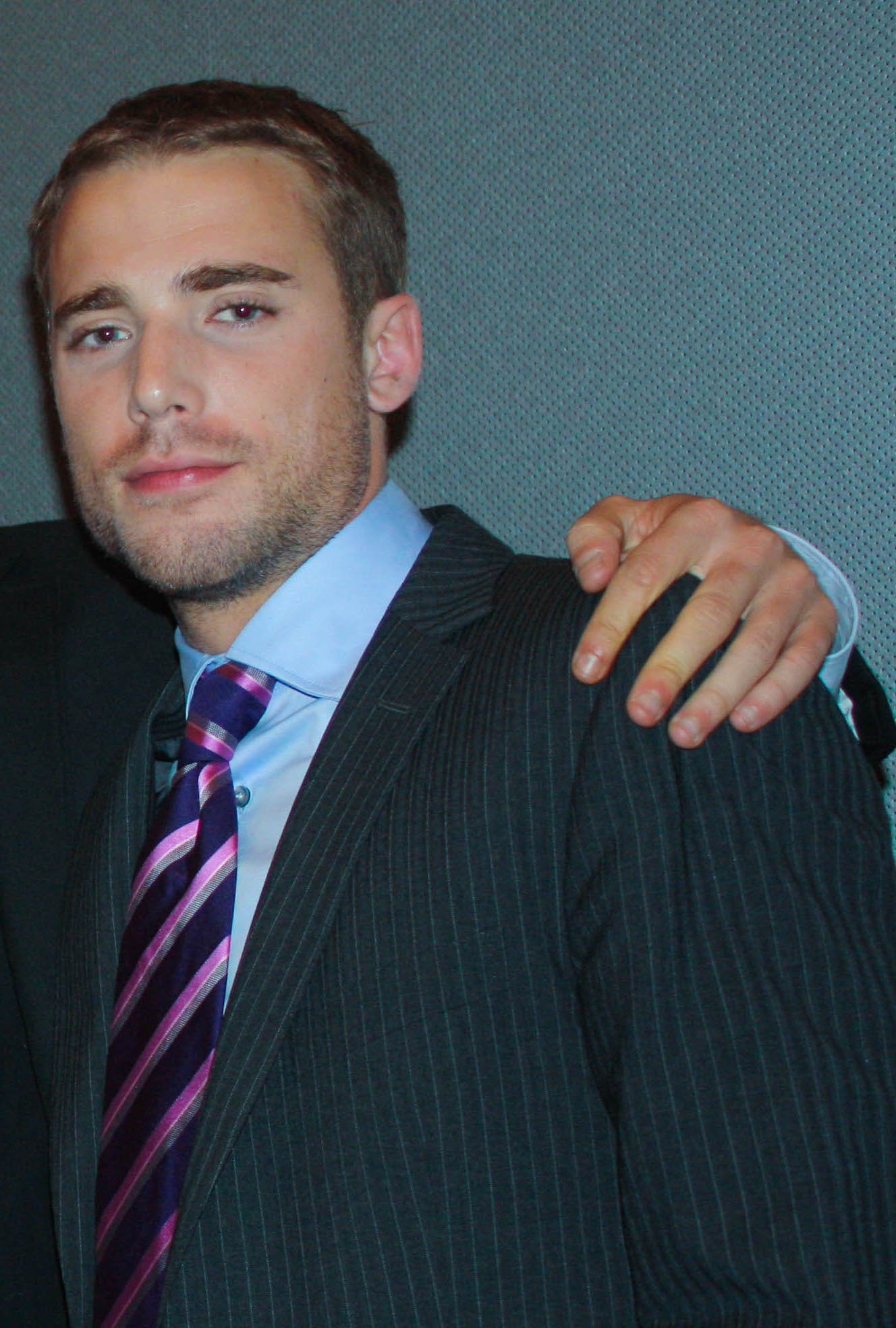 Canadian actor Dustin Milligan at Repeaters premiere party in 2011.